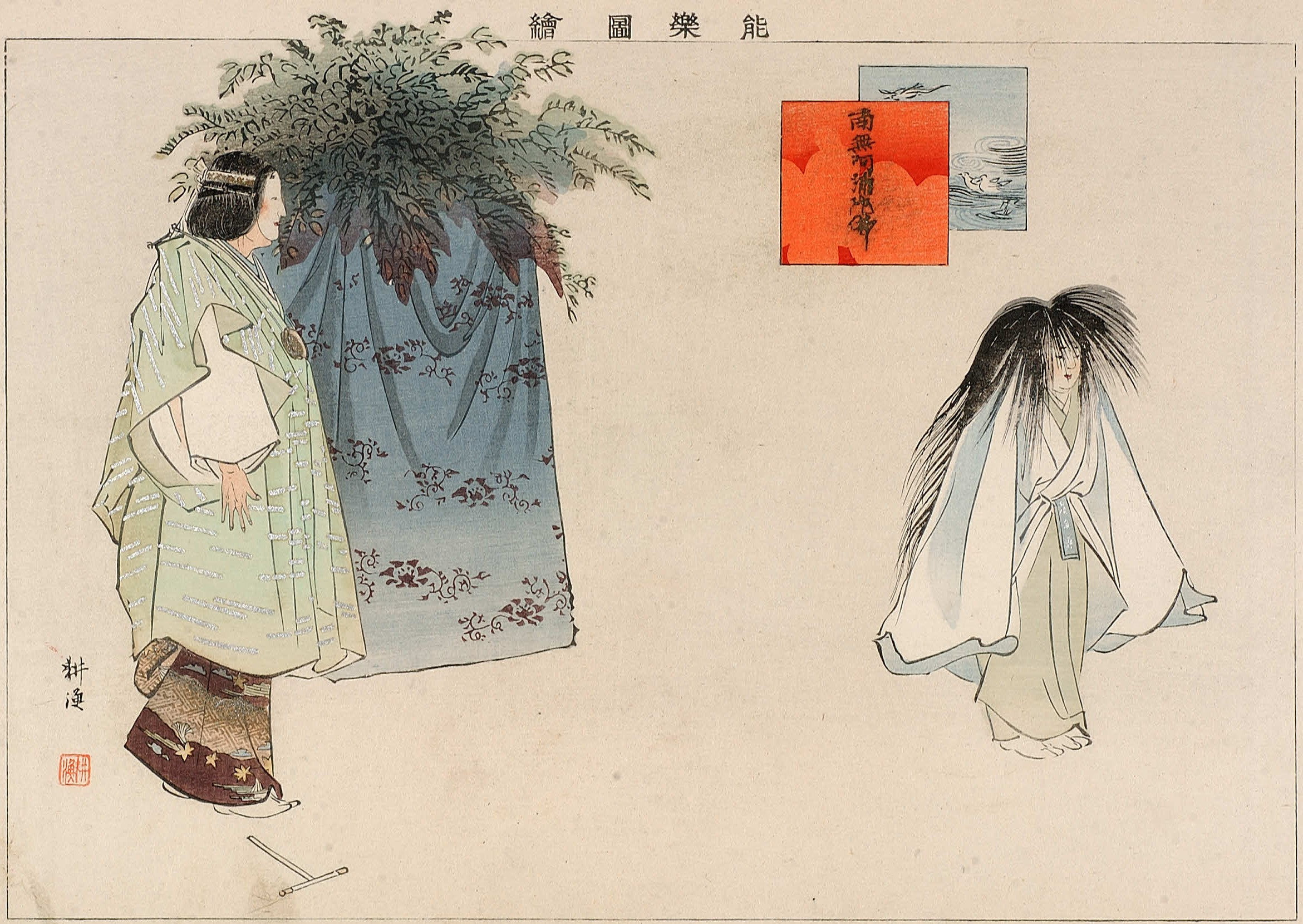 Scene from "Sumidagawa" (Nô-play)